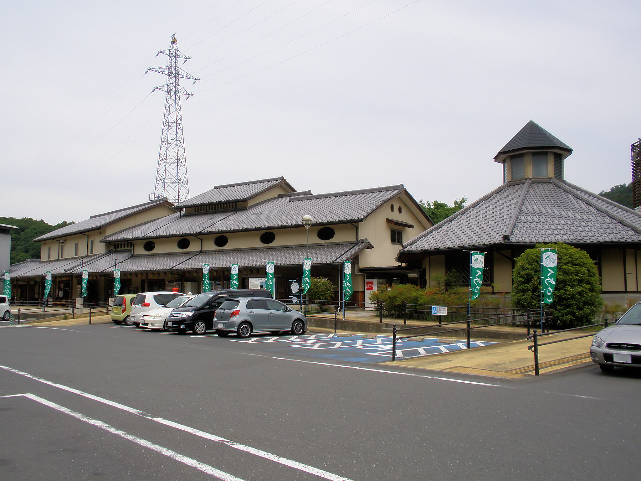 Roadside Station Kumenan, Kumenan, Okayama.